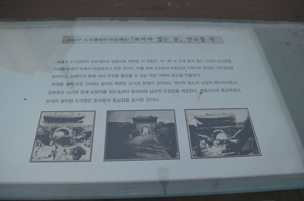 Memorial of Donuimun Gate, also known as West Gate or Seodaemun, Seoul, South Korea. Photographed May 27, 2012. Photo shows signage on memorial, including historical photographs.